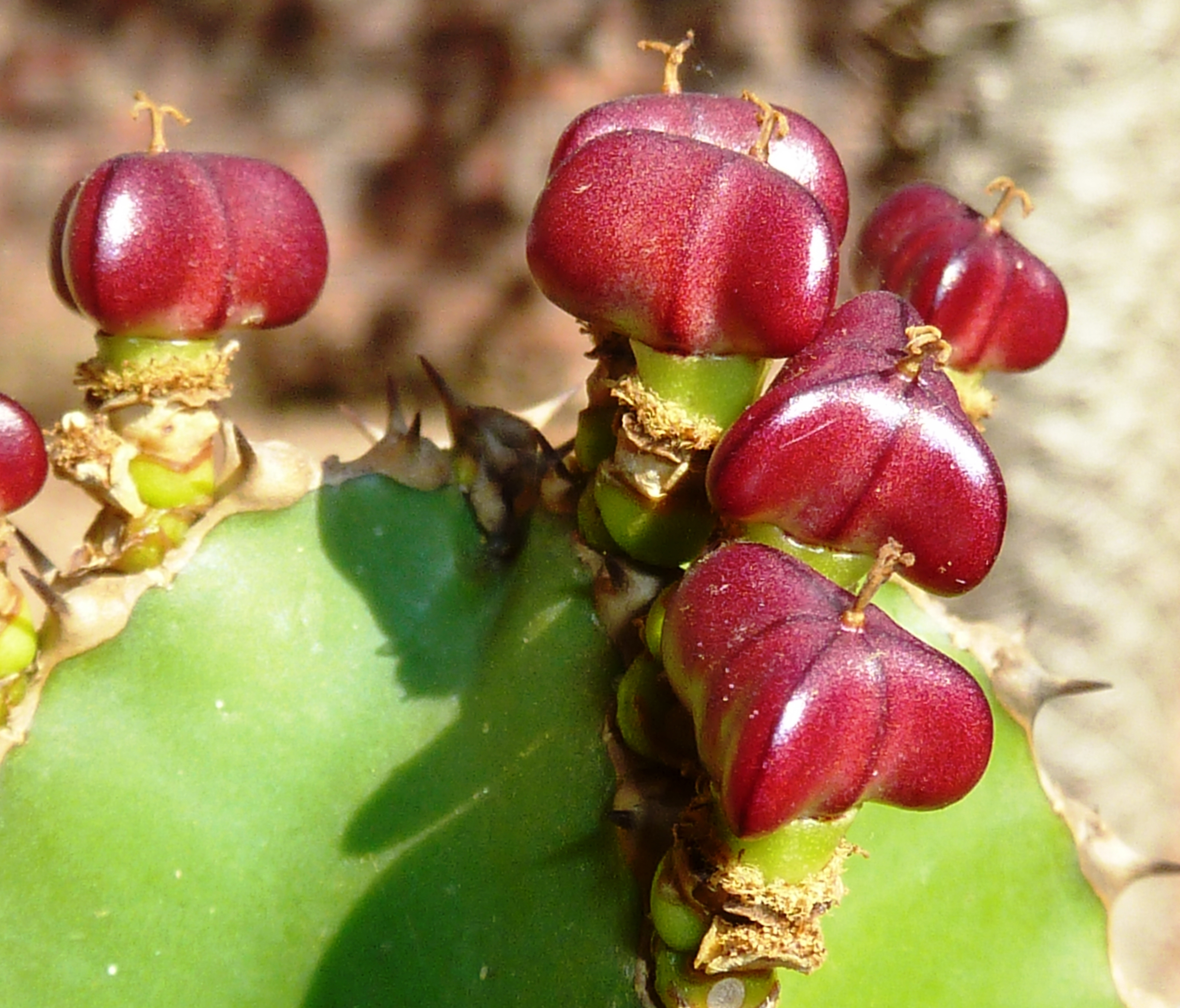 Fruit of a Transvaal candelabra tree in suburban Pretoria